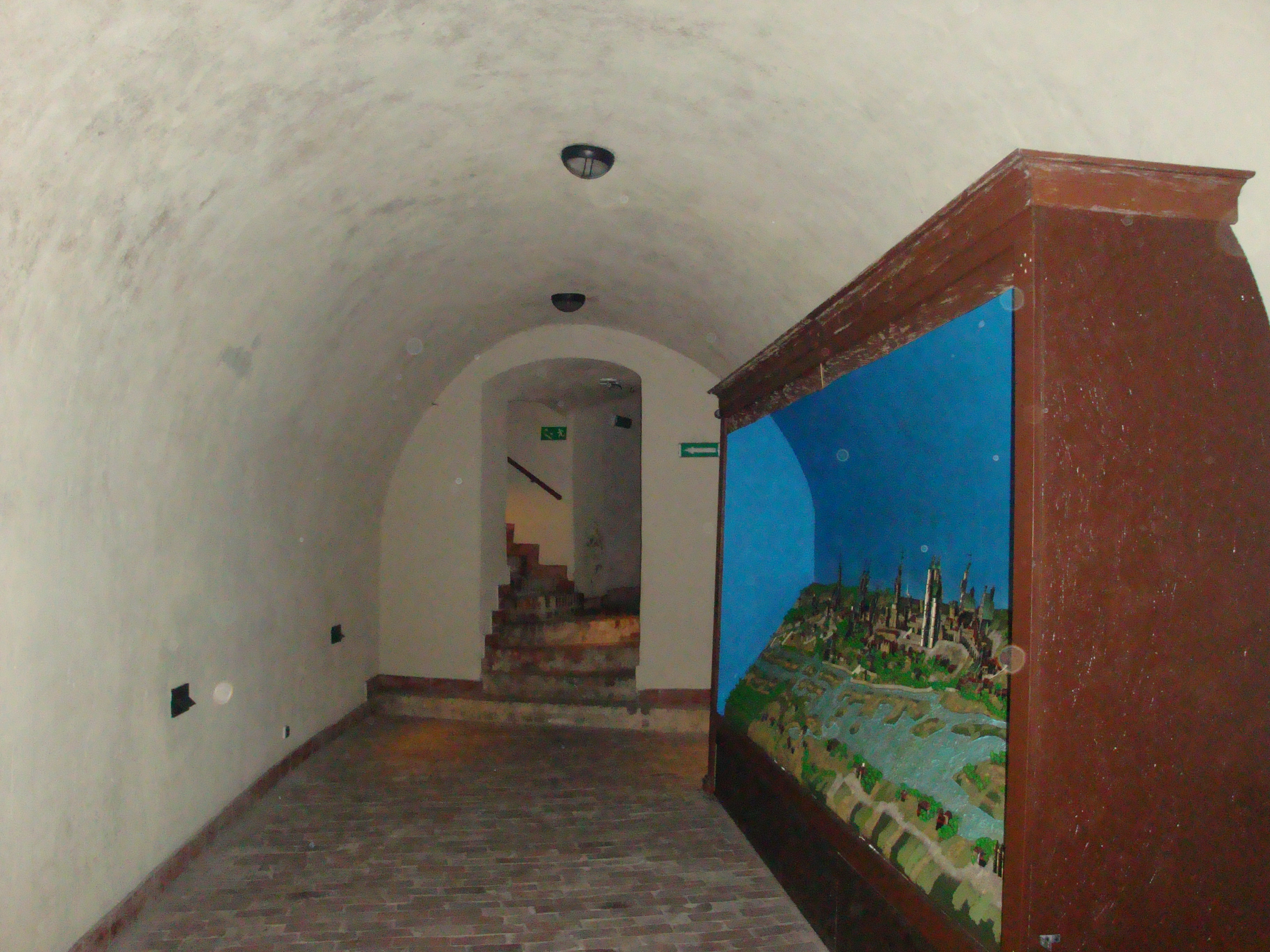 Lublin Underground Route leads trough cellars under Lublin Old City.